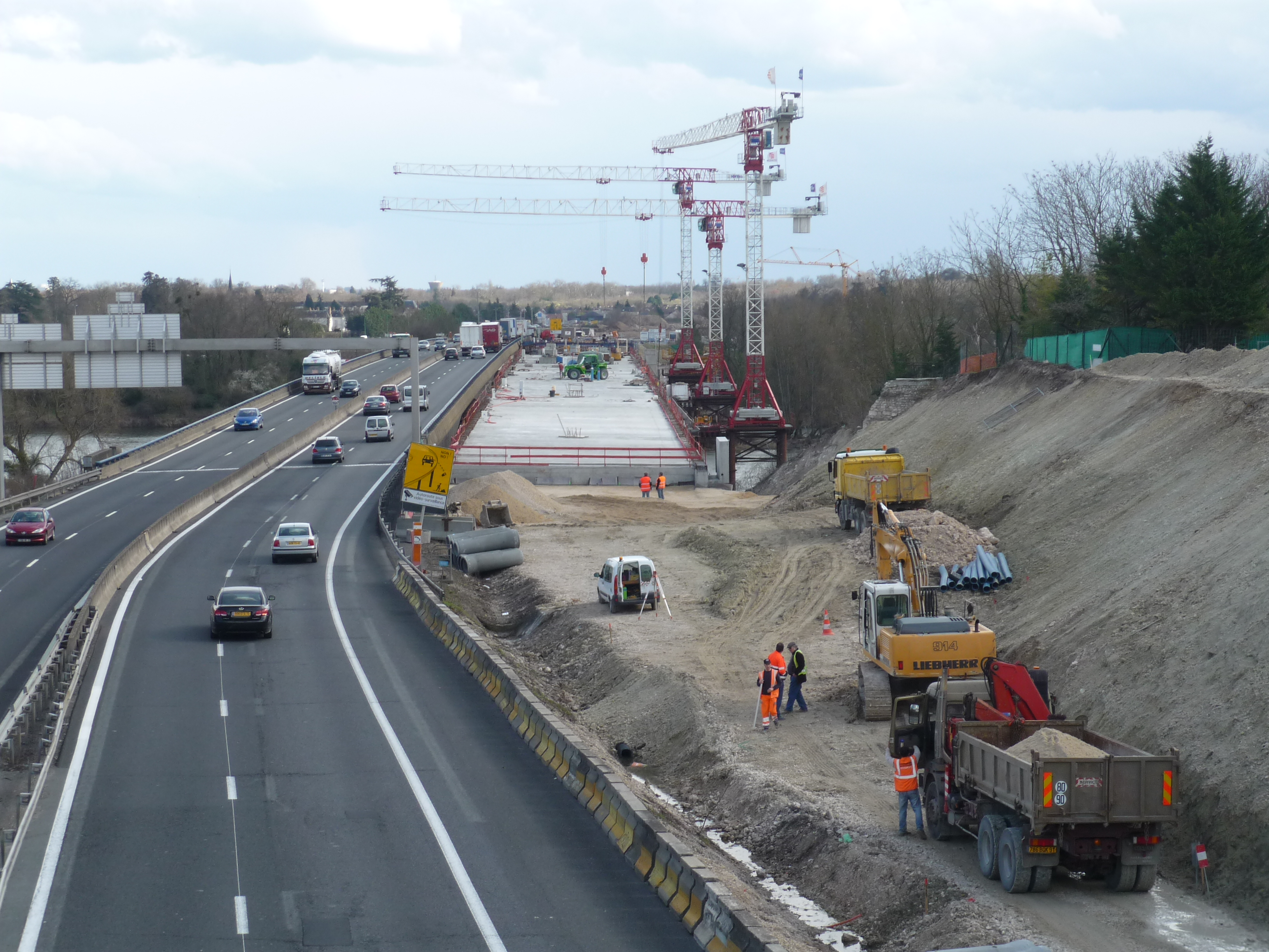 Bridge of the French motorway A71 under construction near Orléans